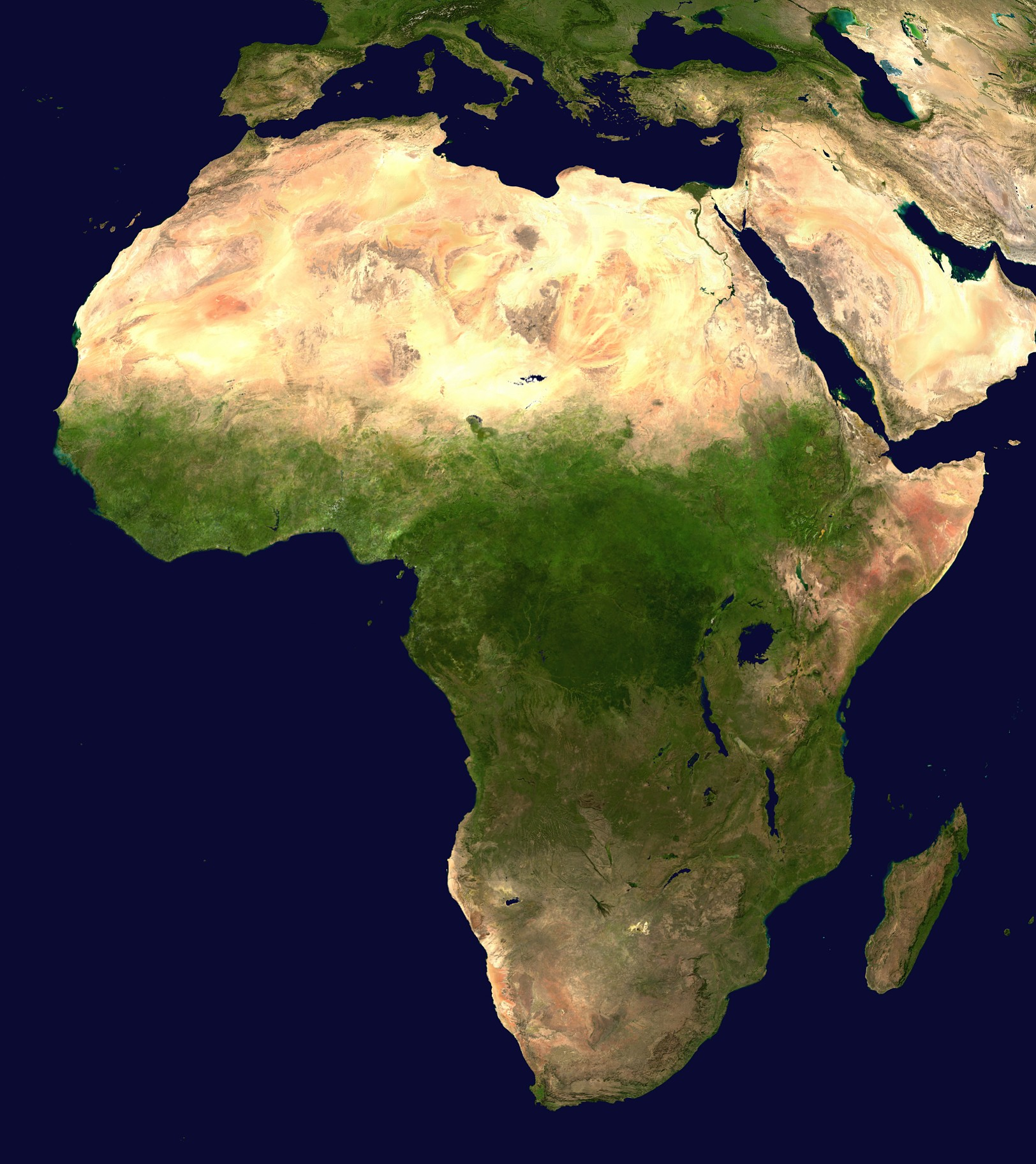 A composed satellite photograph of Africa in orthographic projection. This is NASA "Blue Marble" image applied as a texture on a sphere using Art of Illusion program. The observer is centered at (0° N, 15° E), at Moon distance above the Earth.